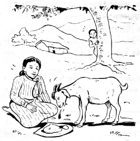 Sketch of Punkhu Maincha and Dhon Cholecha, characters from a Nepalese folk tale.